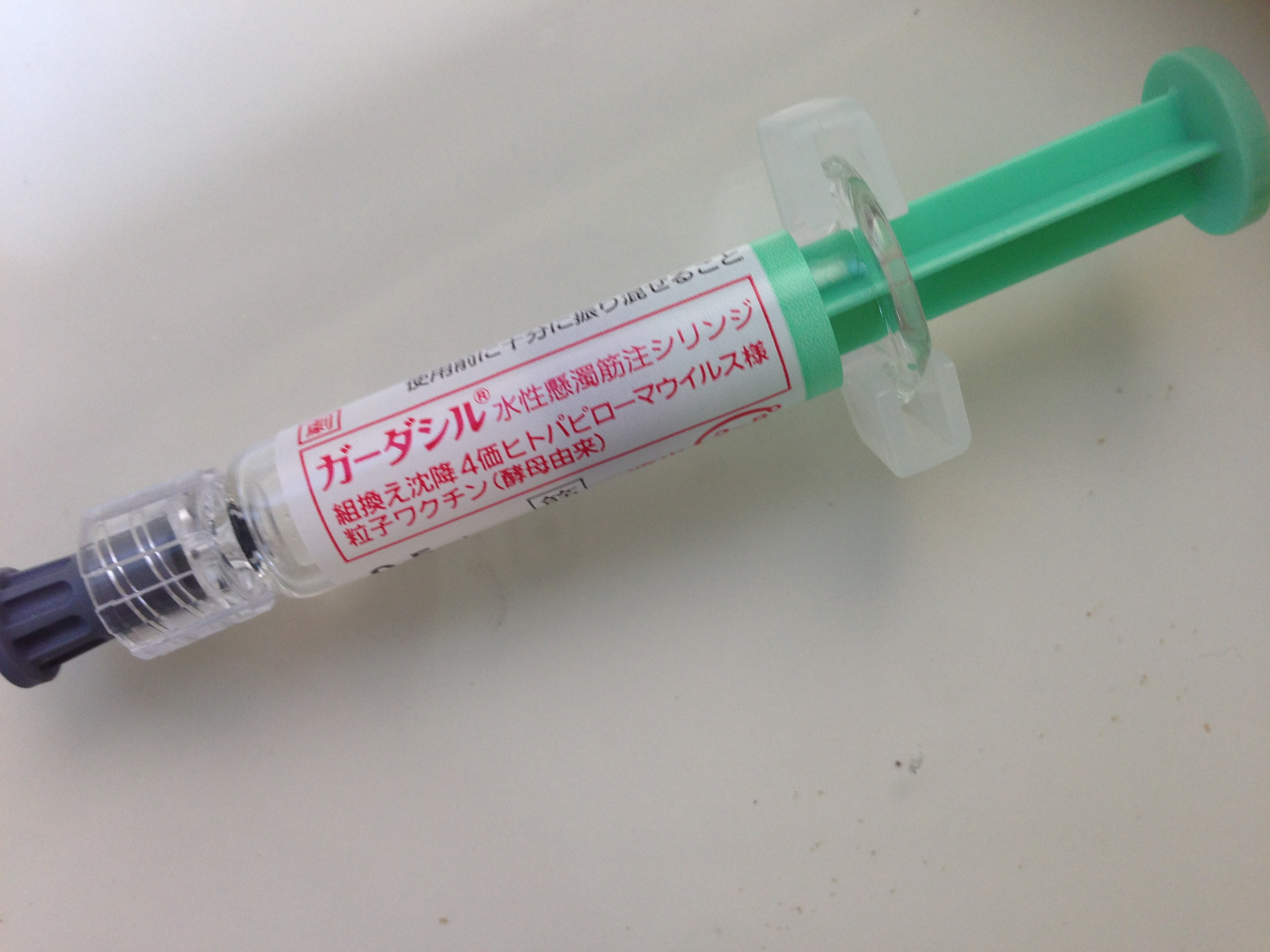 HPV-vaccine " Gardasil" 2016 JAPAN